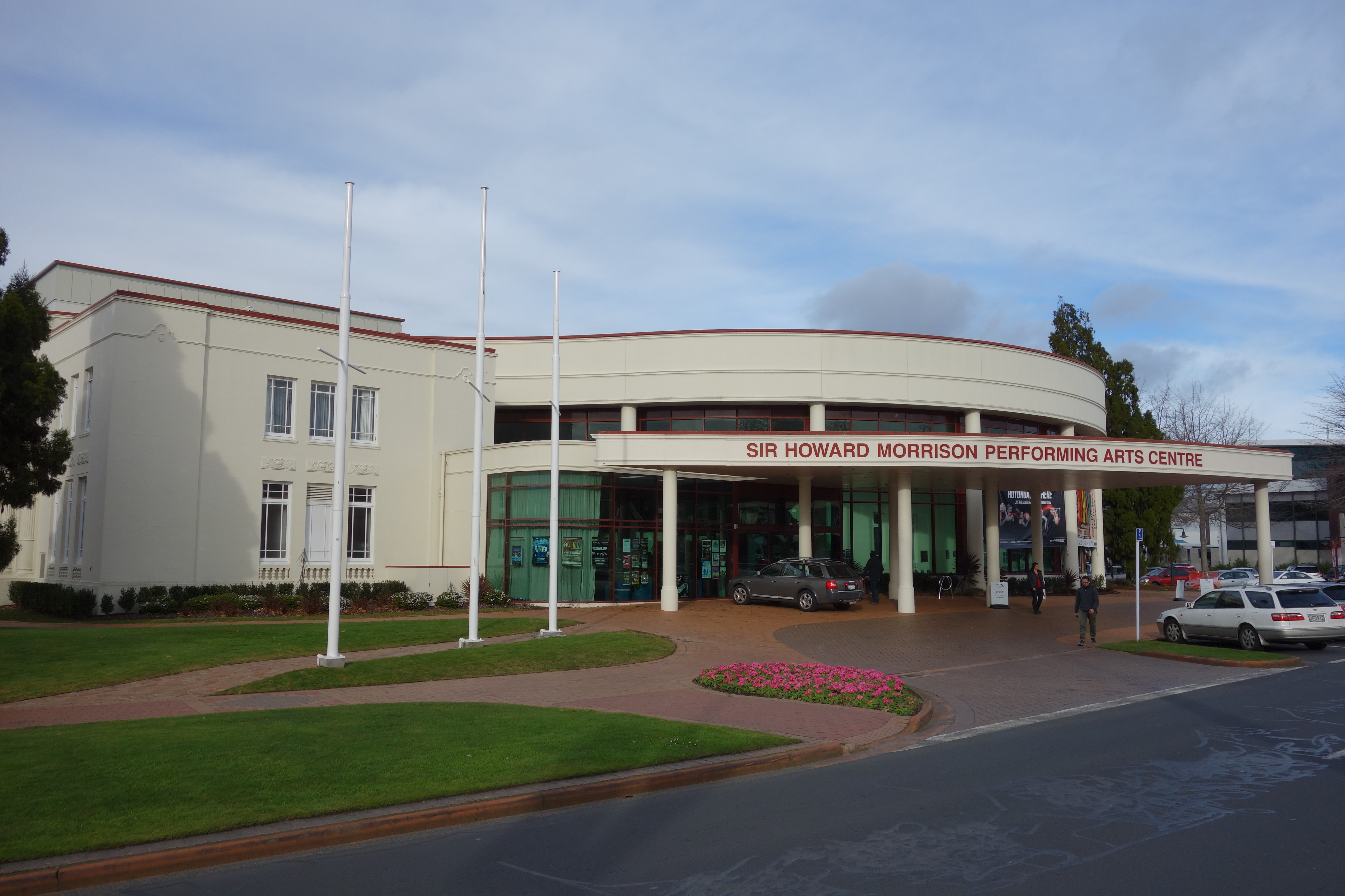 Sir Howard Morrison Performing Arts Centre in July 2016